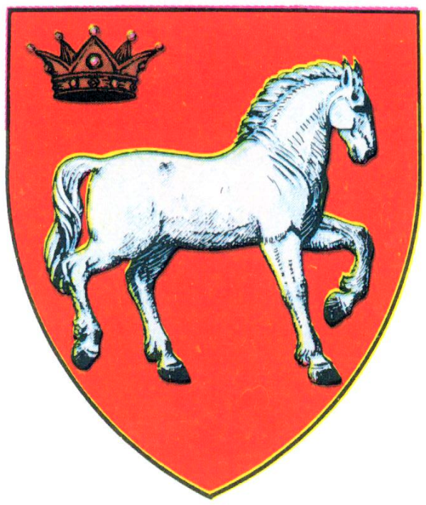 Interwar coat of arms of Iași County, Kingdom of Romania.